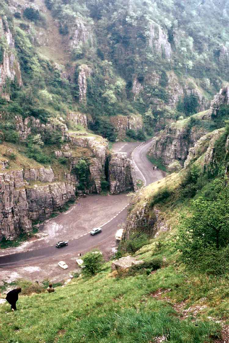 The cliffs and gorge at Cheddar.